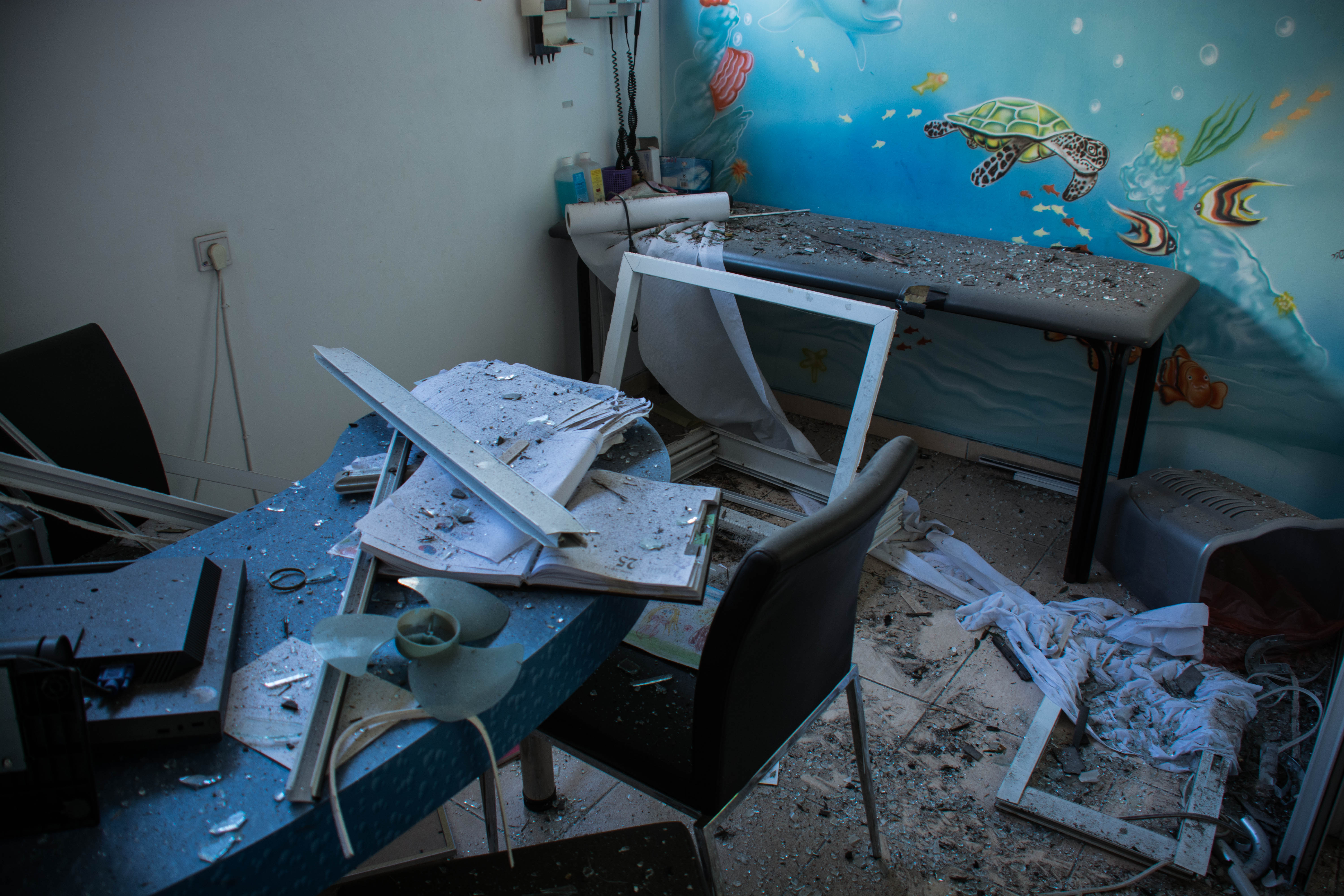 Hamas terrorists fired a rocket from Gaza on July 16 and severely damaged a children's home and health clinic in Ashkelon.